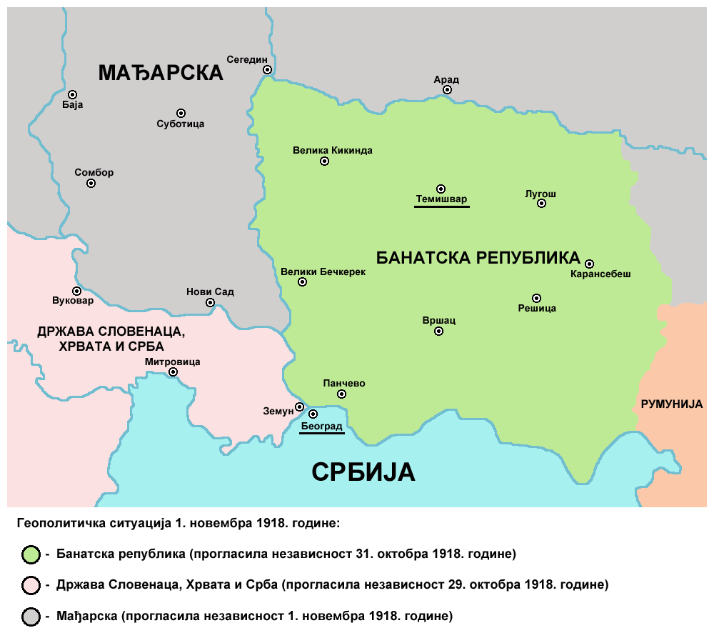 Historical map of Banat Republic in 1918.